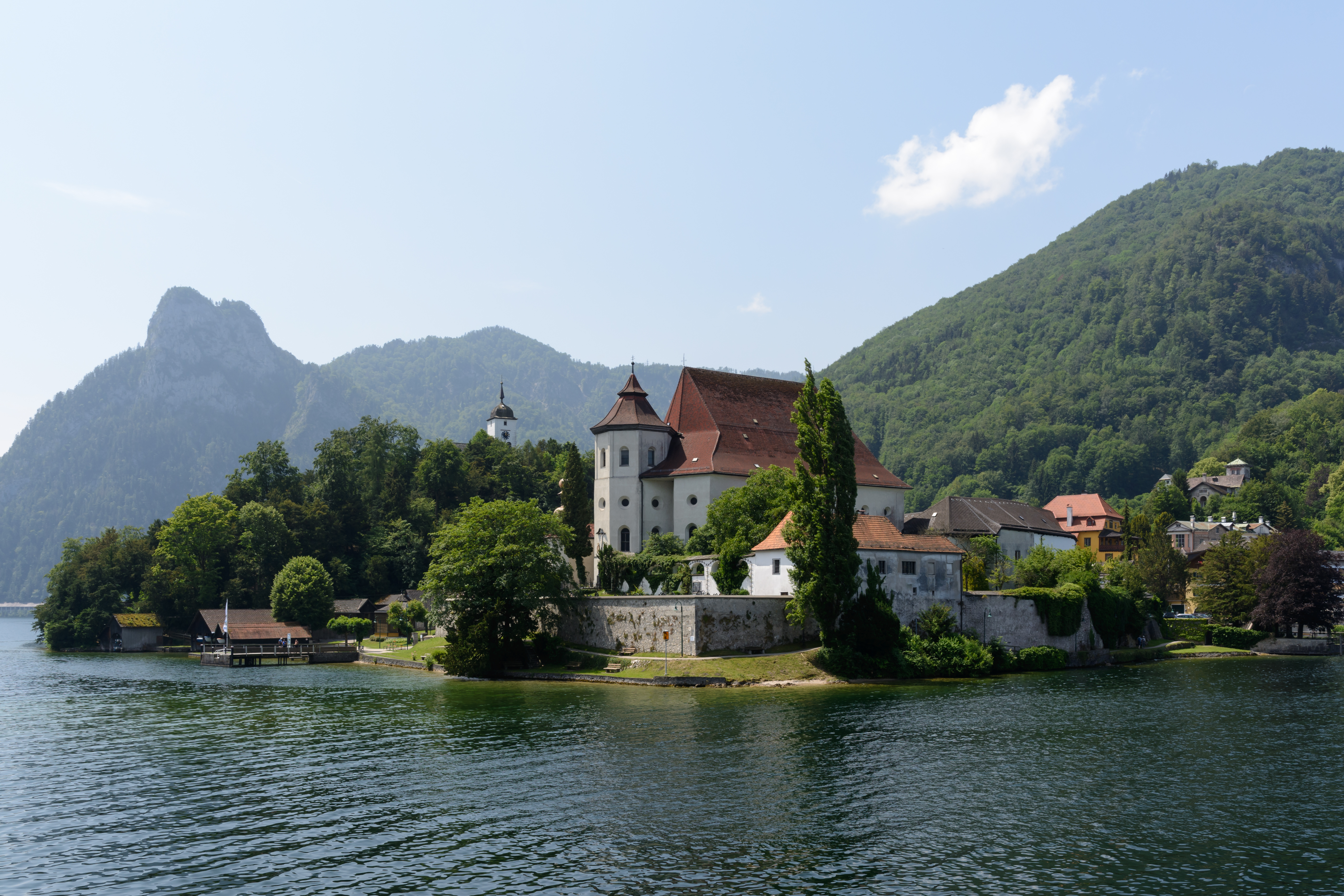 Traunkirchen next to lake Traunsee, Upper Austria